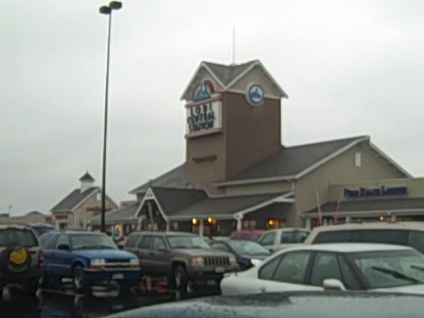 Lodi Station Outlets